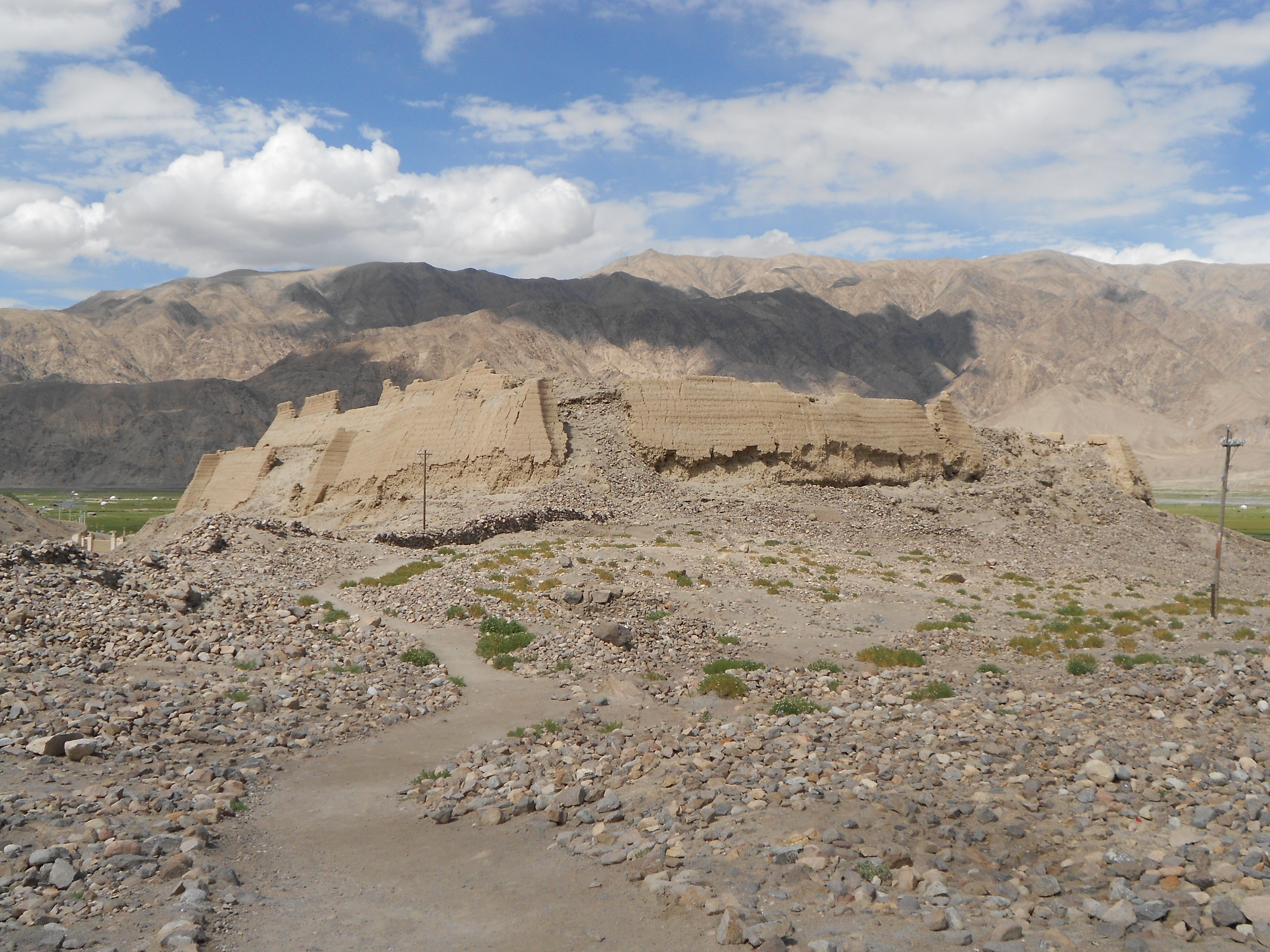 Stone City Tashkurgan, Xinjing Province PR China